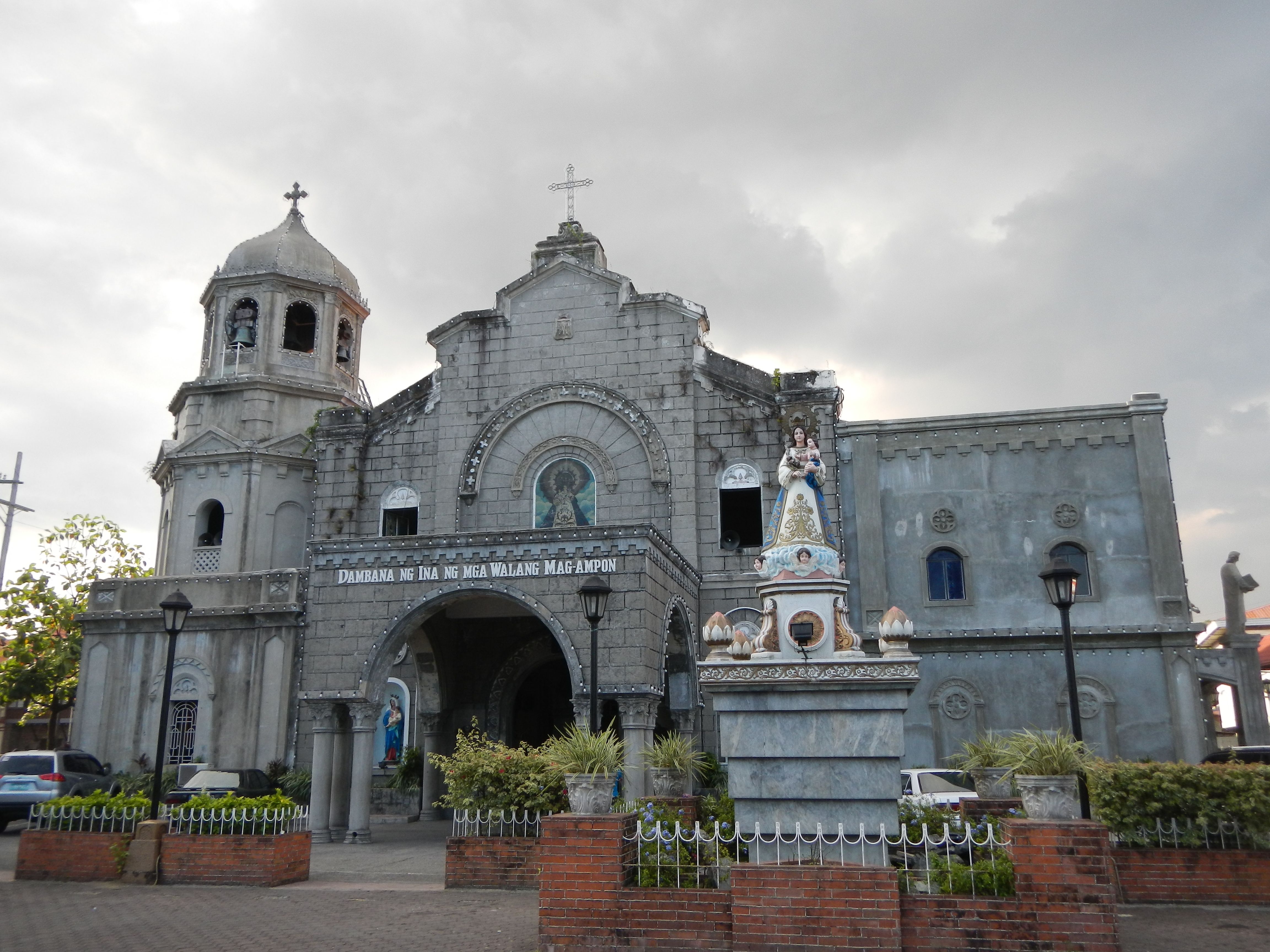 1690-1572 Our Lady of the Abandoned Parish[1]Vicariate of Our Lady of the Abandoned - Diocesan Shrine of Our Lady of the Abadoned Parish (F-1690, Marikina) - Most Rev. Francisco M. De Leon, Rector and Parish Priest, Rev. Fr. Reynante U. Tolentino, Vice Rector and Parish Administrator; It belongs to the Roman Catholic Diocese of Antipolo[2][3]Coordinates: 14°37'50"N 121°5'46"E [4]J.P. Rizal St. Barangay Sta. Elena, Marikina City Parish Priest: Most Rev. Francis M. De Leonddress